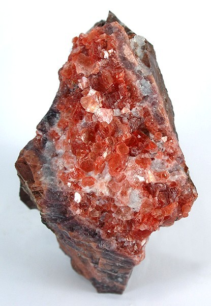 Ephesite Locality: Postmasburg, Griqualand, Northern Cape Province, South Africa (Locality at ) Size: 6.7 x 3.9 x 3.2 cm. Sharp, richly colored crystals to 6mm of this rare species related to diaspore, clustered attractively on a display-sized matrix, make this both an important rarity AND a fine display specimen for any collection. These rarities were found in the late 1970s or early 1980s and not since, in any quality. Ex. Charlie Key.